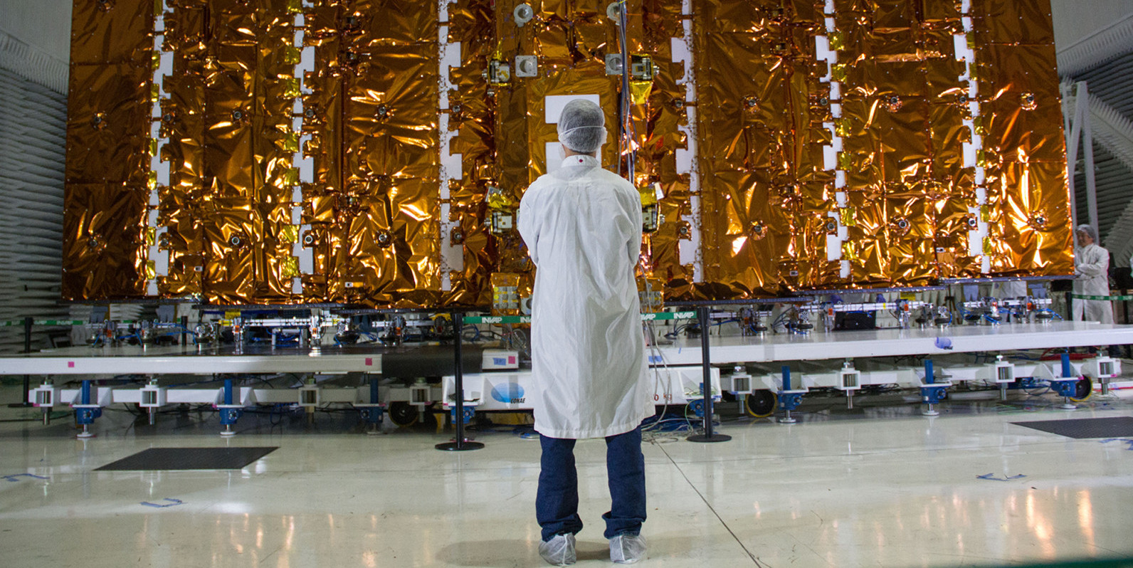 An engineer stands in front of the SAOCOM 1B satellite after it's integration.